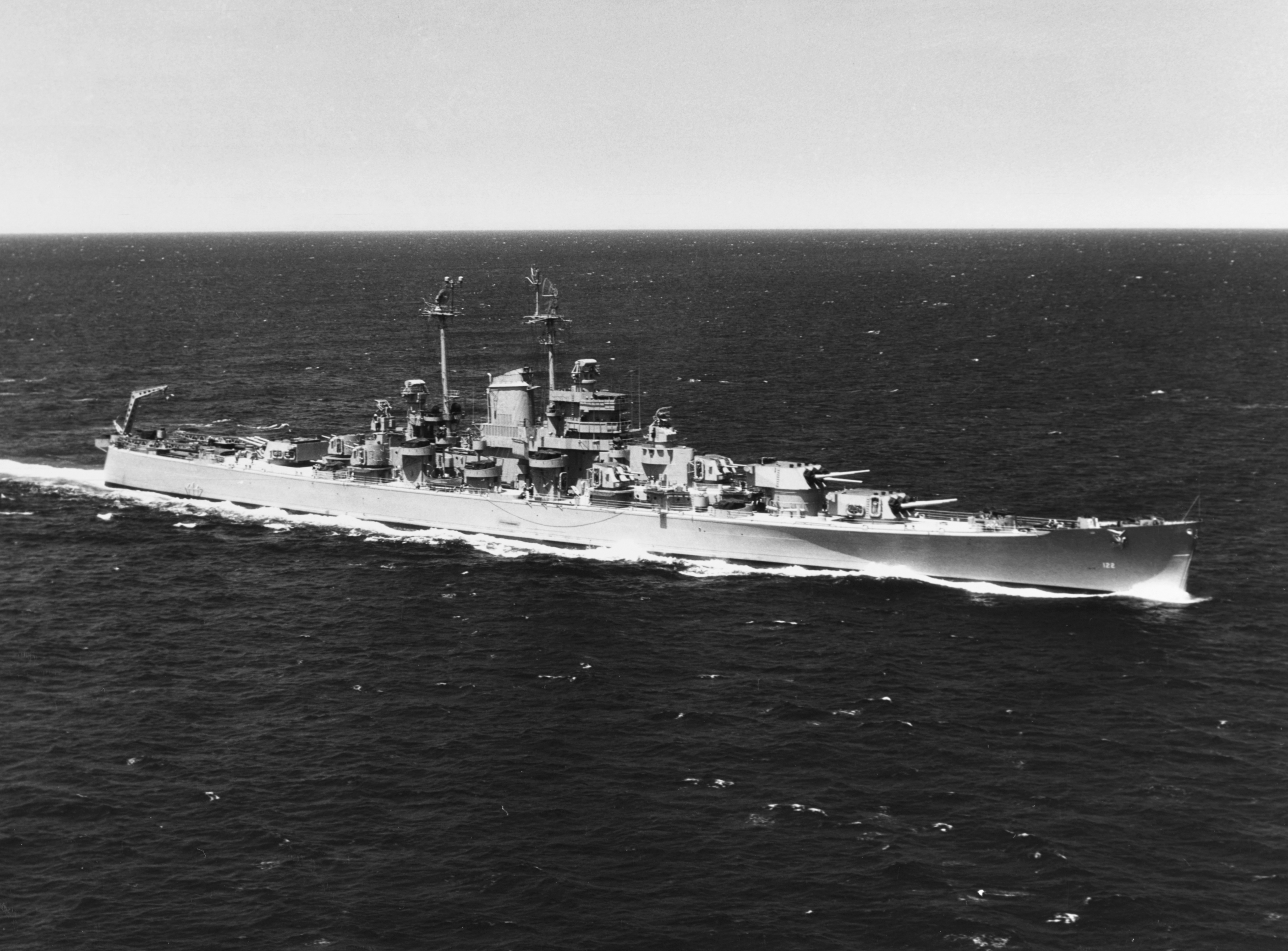 The U.S. Navy heavy cruiser USS Oregon City (CA-122) underway approximately 16 km (10 mi) northeast of Provincetown, Massachusetts (USA), on 17 June 1946.